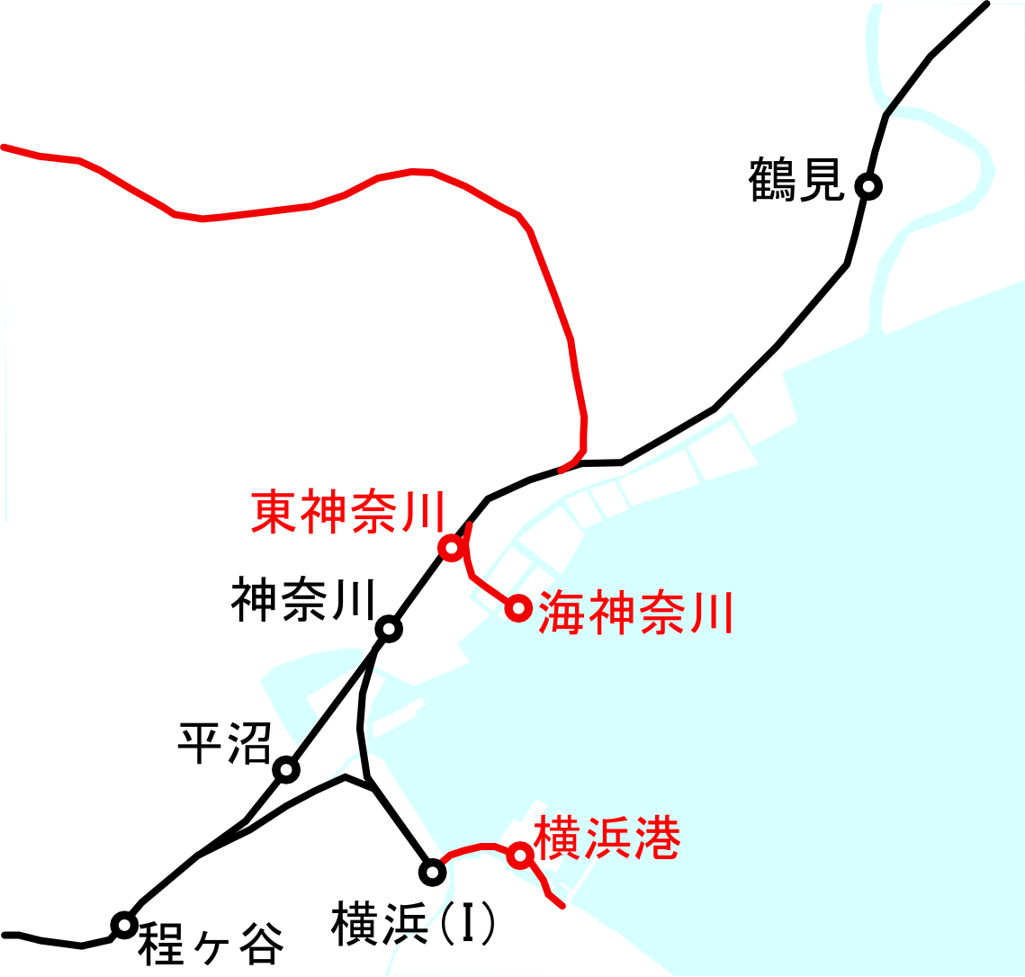 Railway route map around Yokohama port in 1912. New lines / stations since previous map are shown in red. Not changed lines / stations are shown in black. Disused lines / stations are shown in gray. Only national railway network is shown in this map. Yokohama railway and Umi-Kanagawa freight station was opened. Port railway to Yokohamaminato station was also opened.